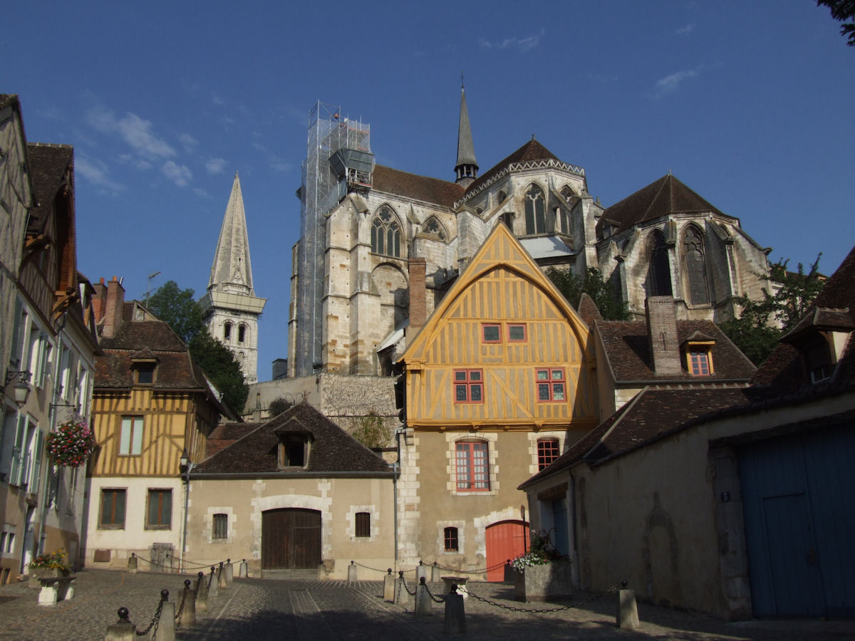 Auxerre, France. From the rue du Garde-Neige, the Saint-Germain abbey.